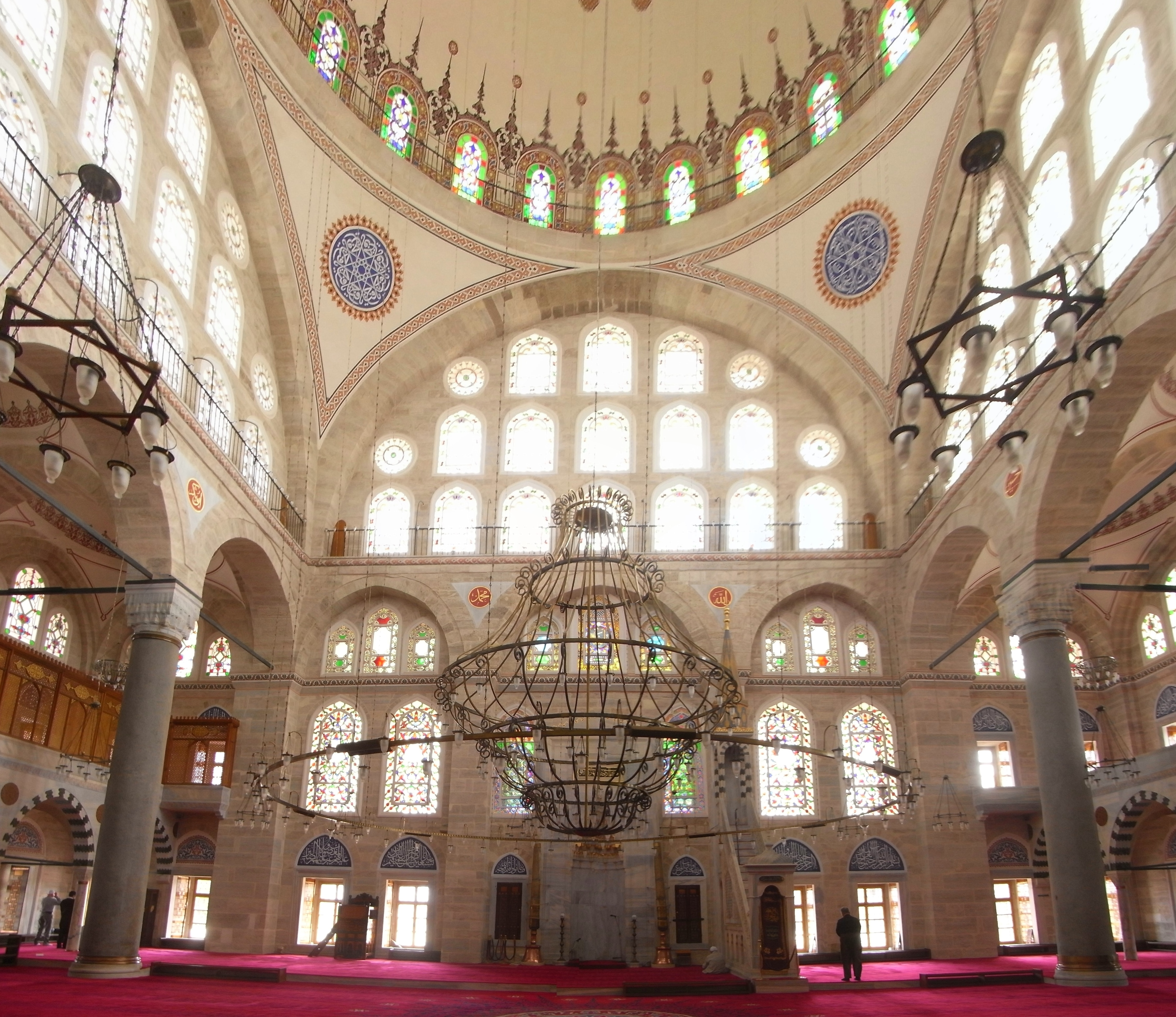 Interior of Mihrimah-Sultan-Mosque at Edirnekapı, Istanbul, Turkey